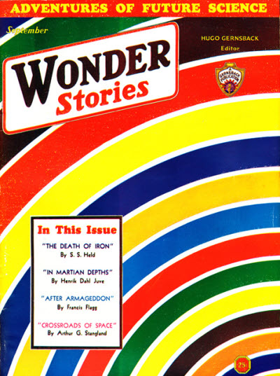 Cover of Wonder Stories, September 1932